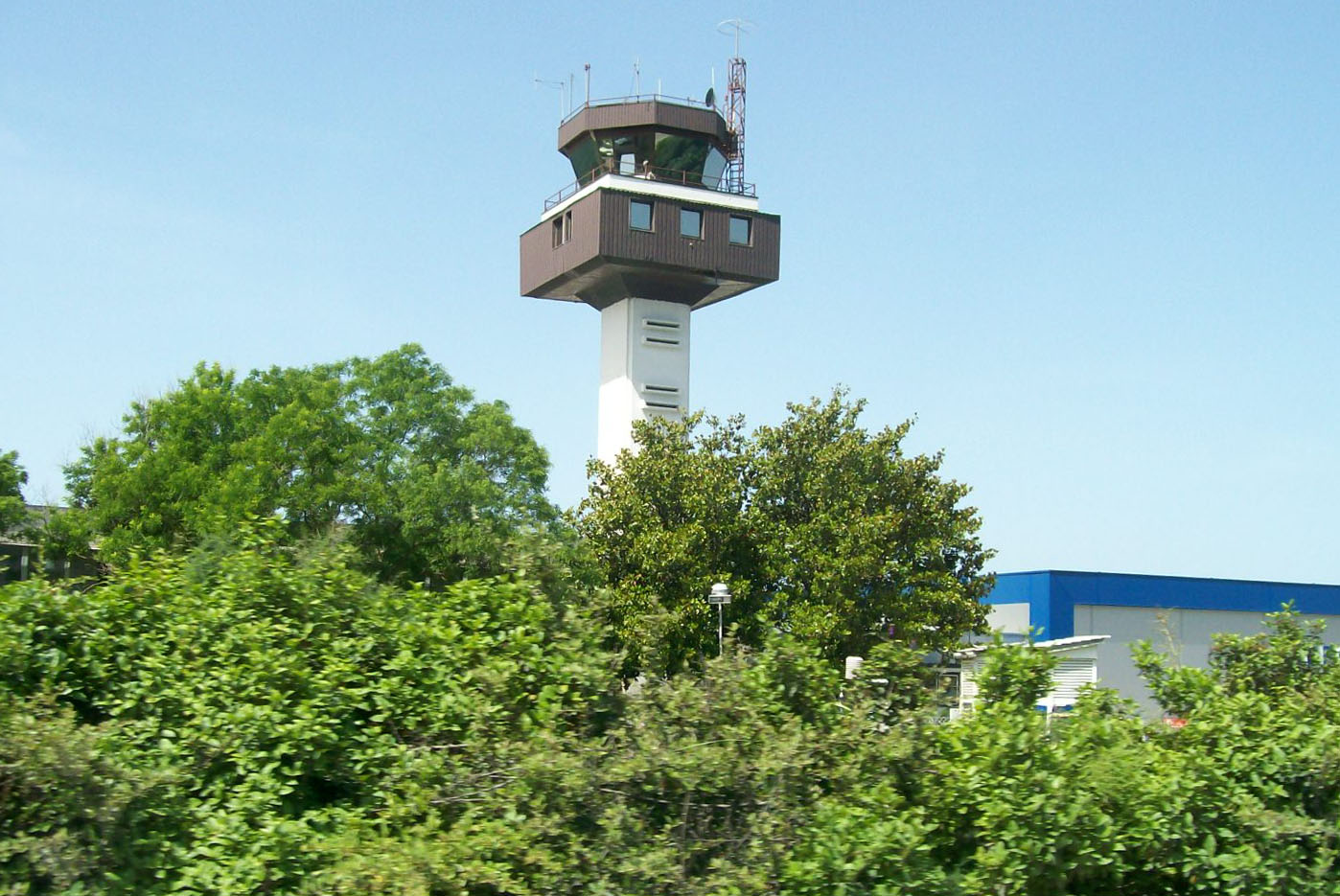 Tivat Airport control tower